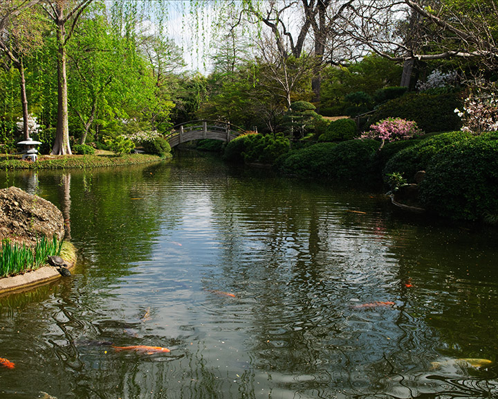 Part of the landscaping in the Japanese Gardens at the Fort Worth Botanic Gardens